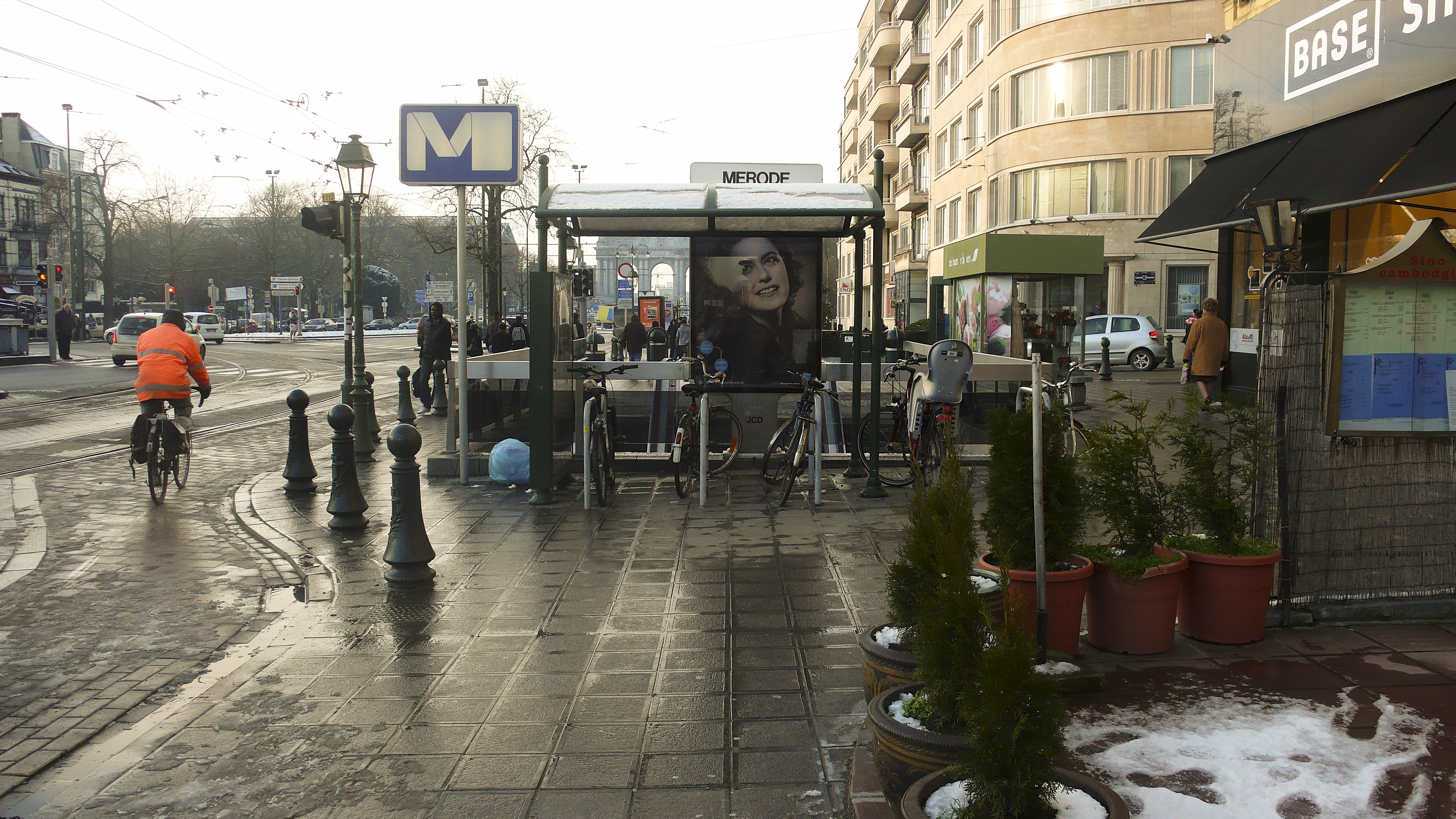 Brussels Merode metro station entrance Camera: Panasonic DMC-LX2 License on Flickr (2011-01-26): CC-BY-SA-2.0 Flickr tags: Brussels, Infomatique, Photographed By Infomatique